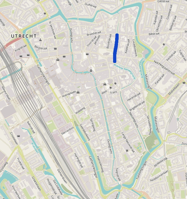 Map of the Drift waterway in Utrecht, The Netherlands